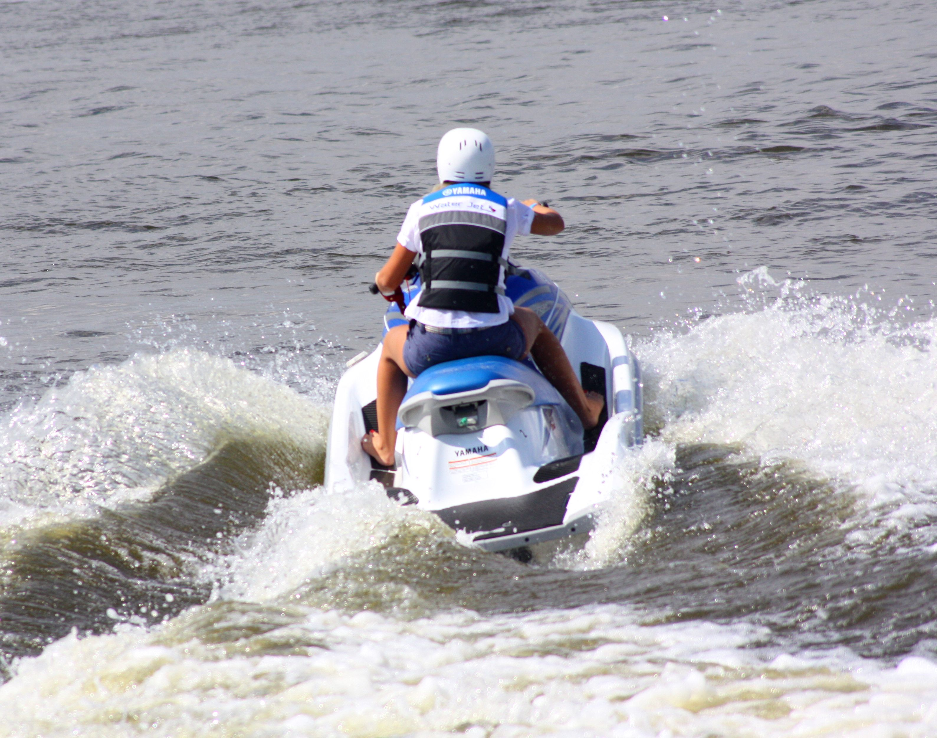 Personal water craft